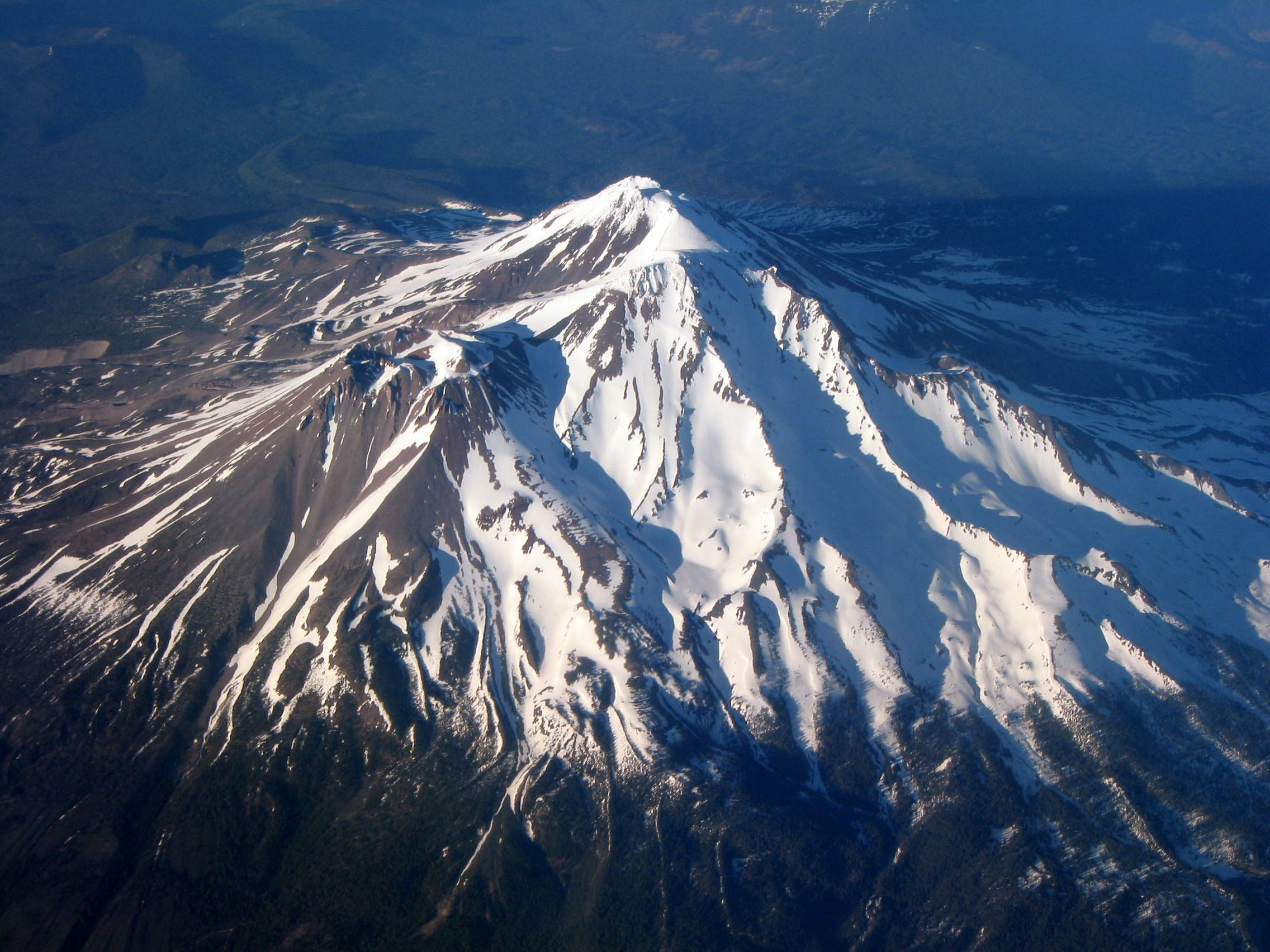 Aerial photo of Mount Shasta taken while flying from San Jose, California to Portland, Oregon